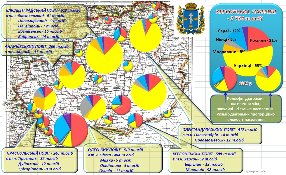 Main ethnic groups of Chersonskaya gubernia in 1897